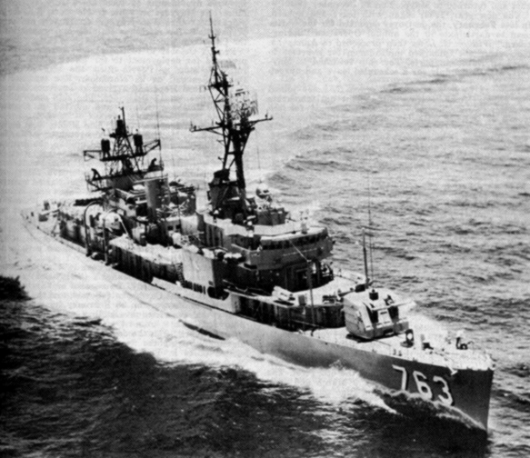 USS William C. Lawe (DD-763) in a high-speed turn.